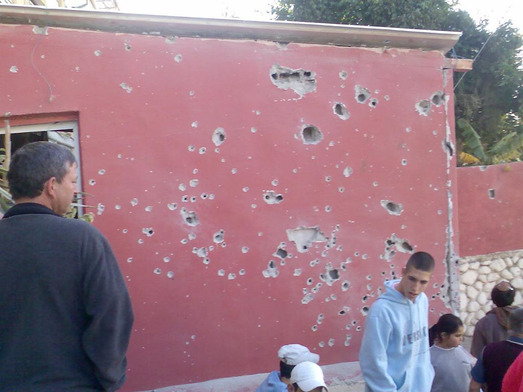 Holes in resident walls, after a missile attack 20 meters from the place, in an open area, during the 2008-2009 Israel-Gaza conflict. The picture was taken near my home in Beersheba.